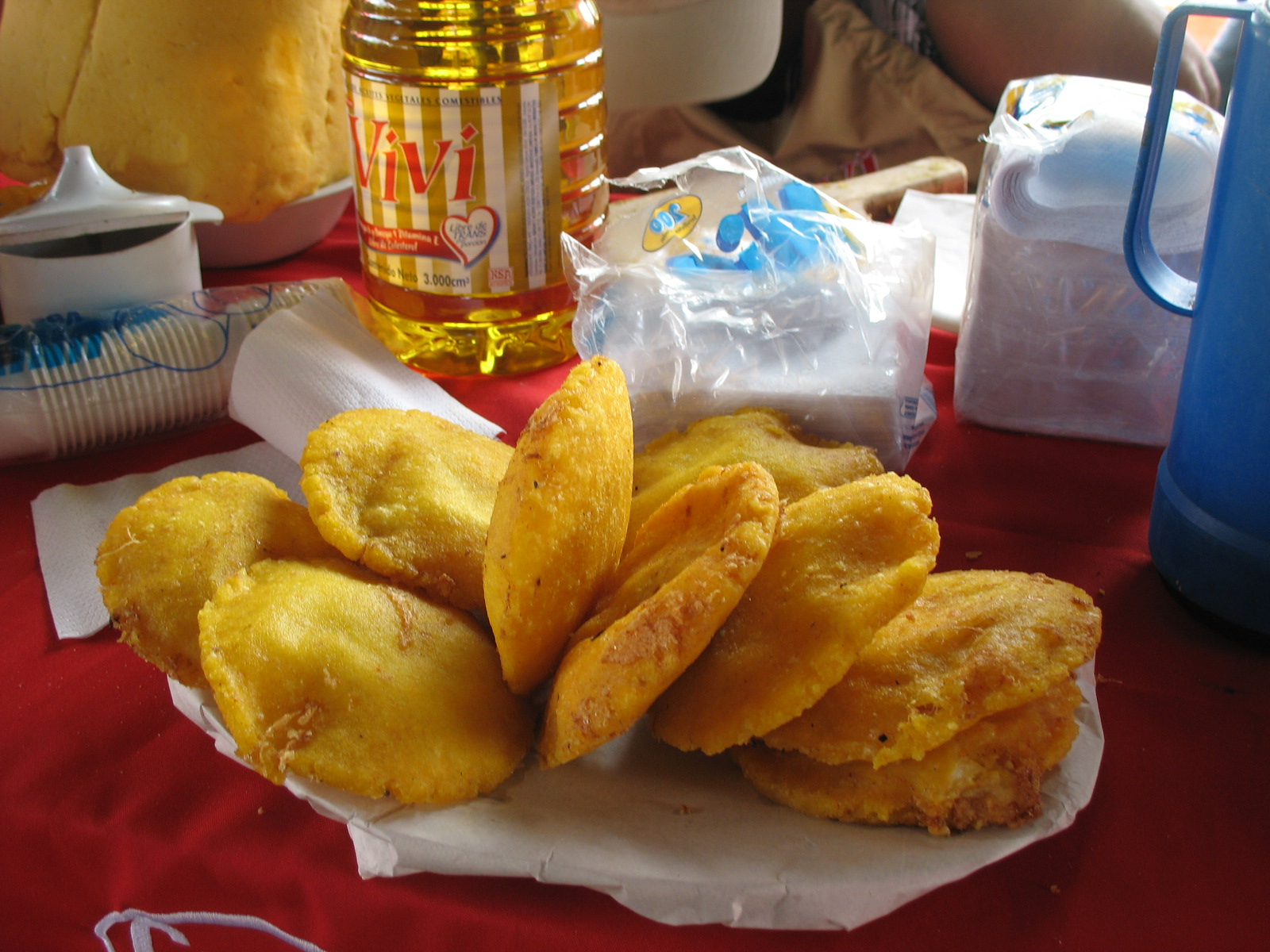 Arepa with egg.